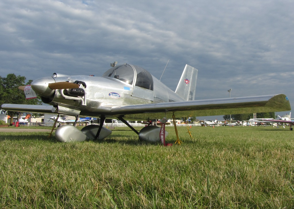 BK Fliers BK-1